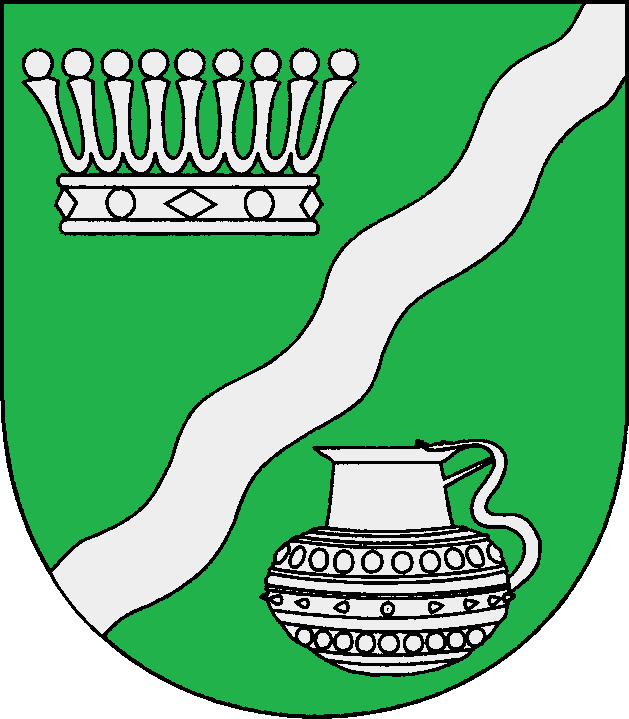 Coat of arms of the municipality Grevenkrug in Schleswig-Holstein, Germany.